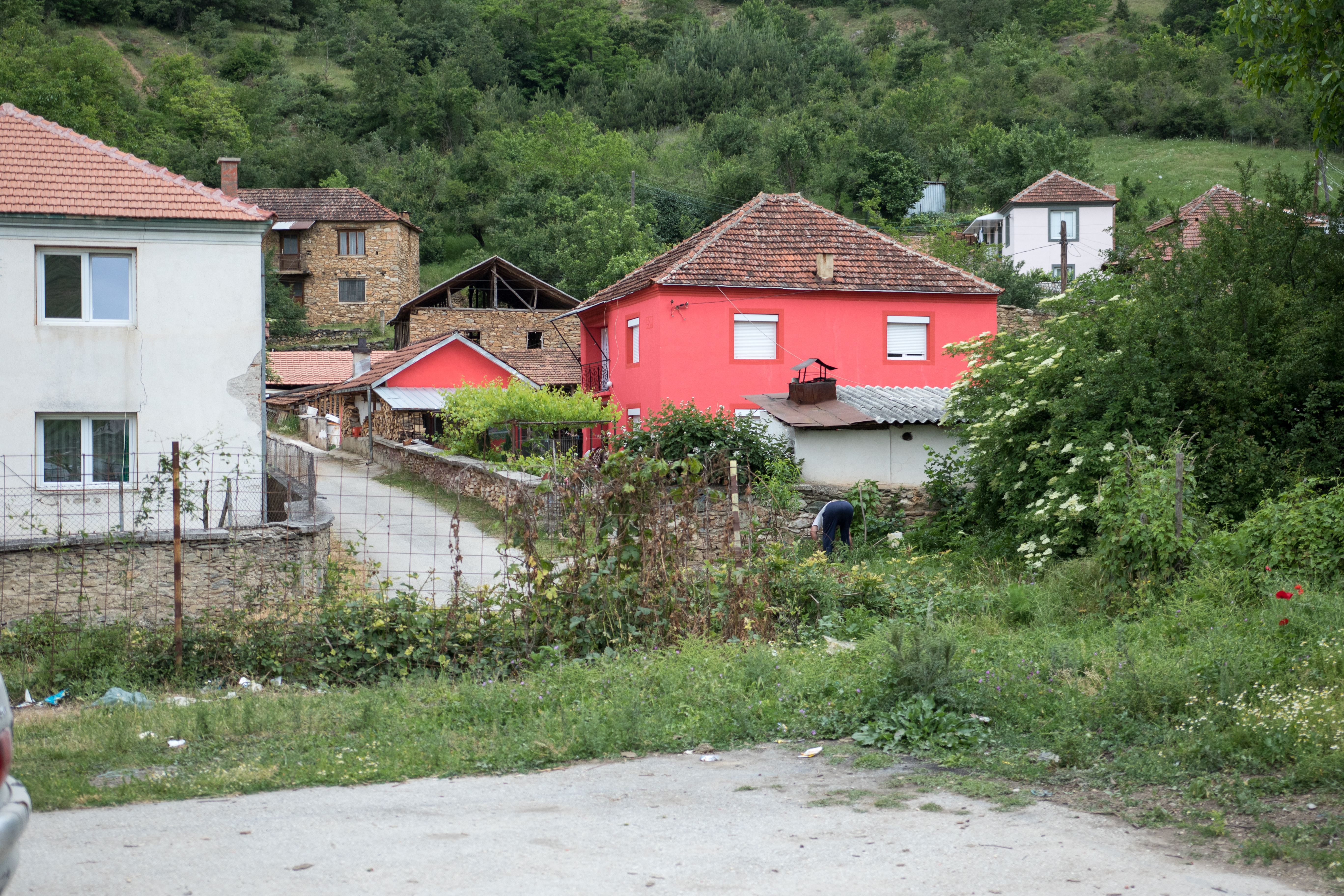 View of the village Sopotnica